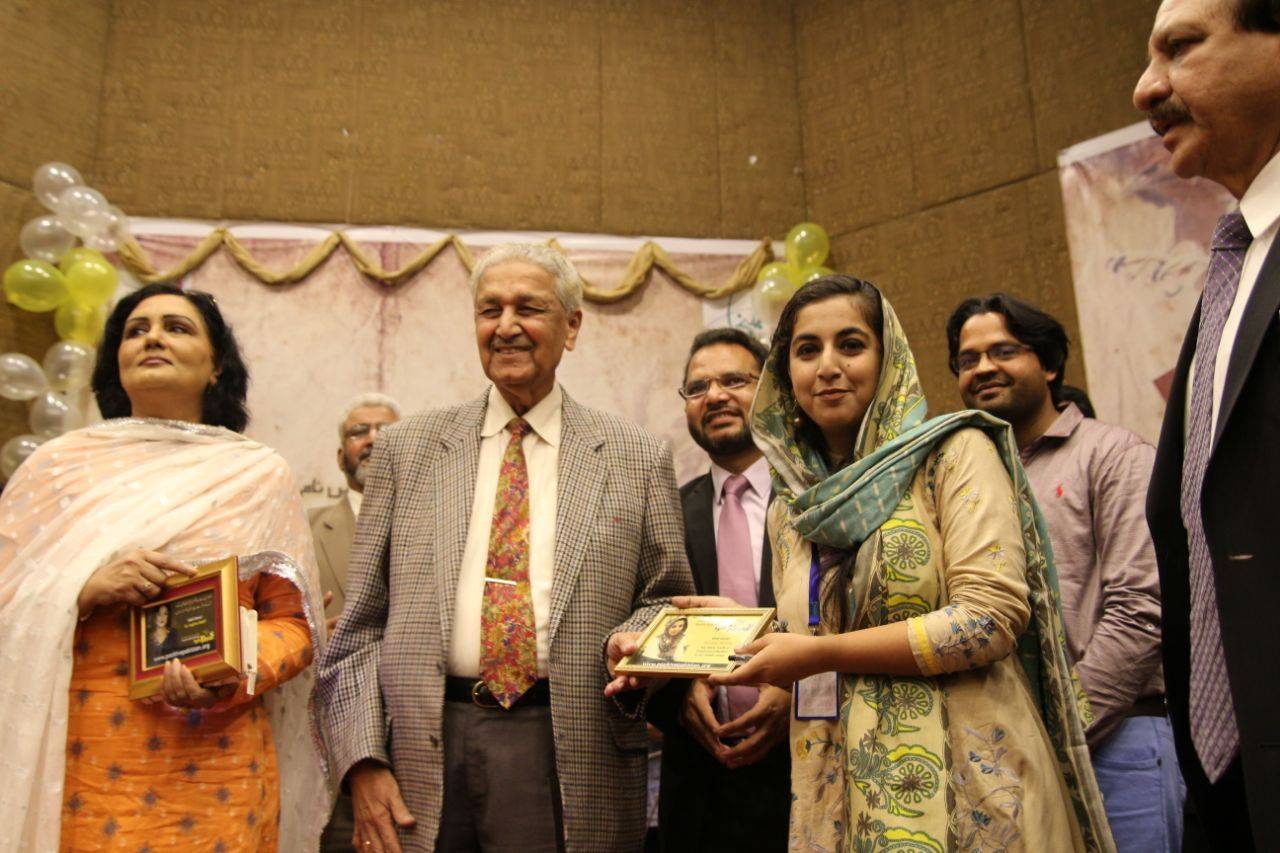 Receiving Shield from Dr. Abdul Qadeer Khan